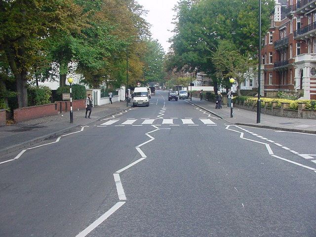 Abbey Road The crosswalk (zebra crossing) where the Beatles Album photo was taken. To those having authority...please get rid of all the extra markings that were not there when the Beatles photograph was taken.